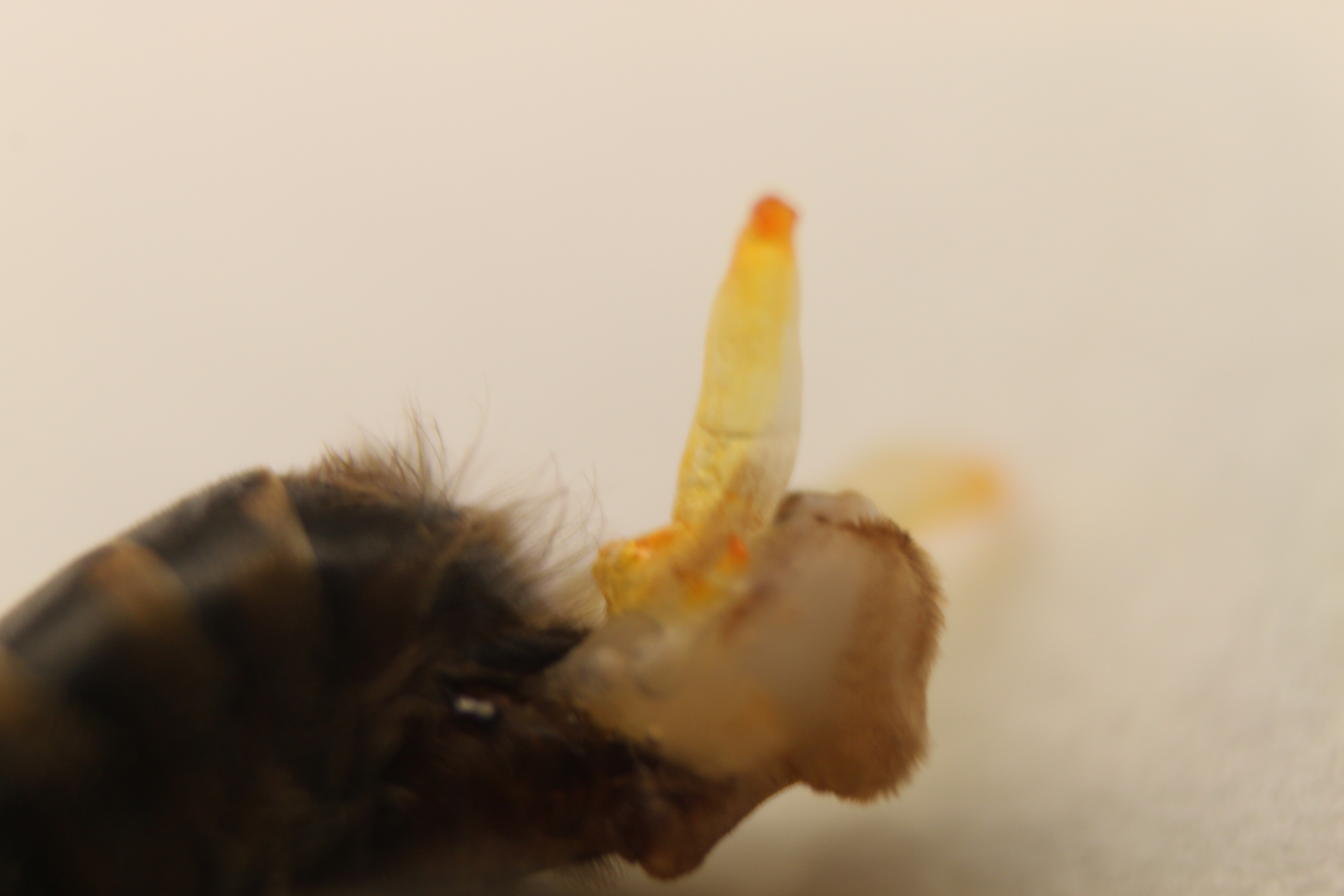 The cornua of the penis is in focus, resembling hooks.